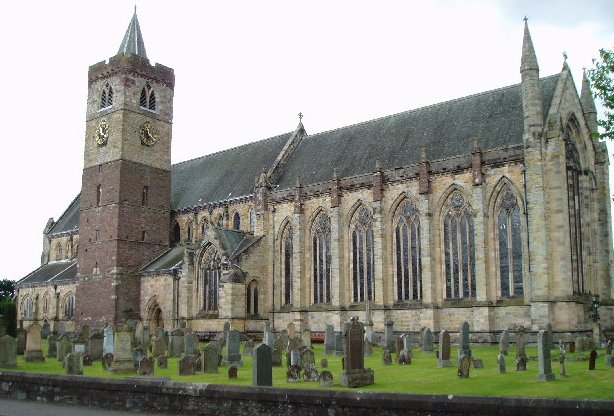 Dunblane Cathedral